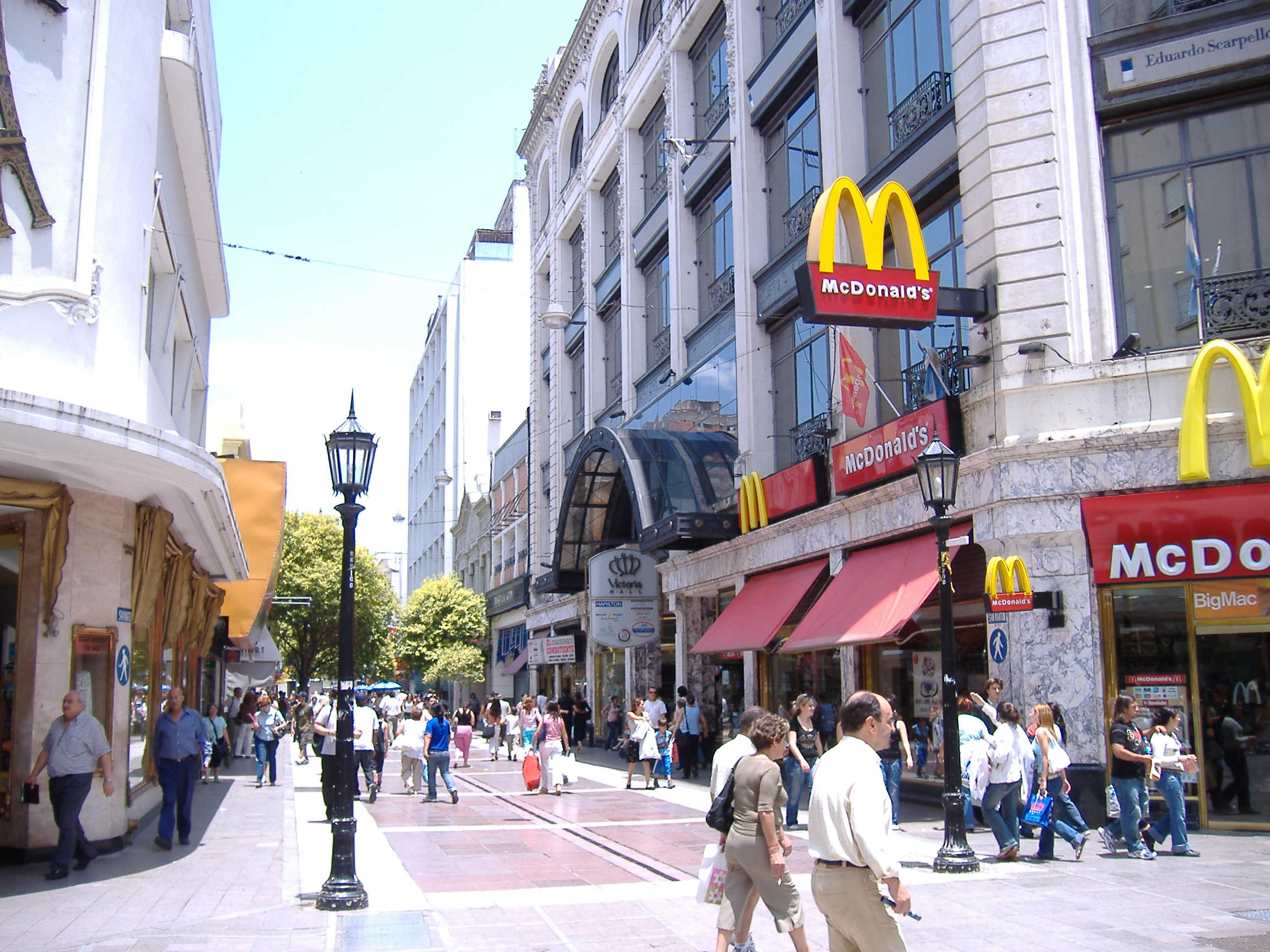 The intersection of San Martín St. and Córdoba St. in downtown Rosario, Argentina. At this intersection, both streets are for pedestrians only.